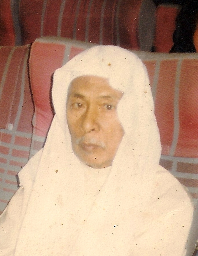 This is an image of Sheikh Ahmad Bashir.